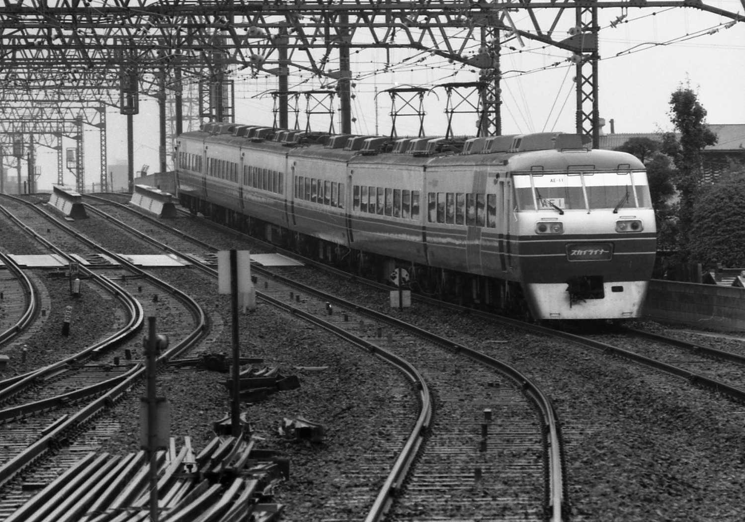 Keisei AE Skyliner to Ueno at Keisei Takasago, taken in 1989